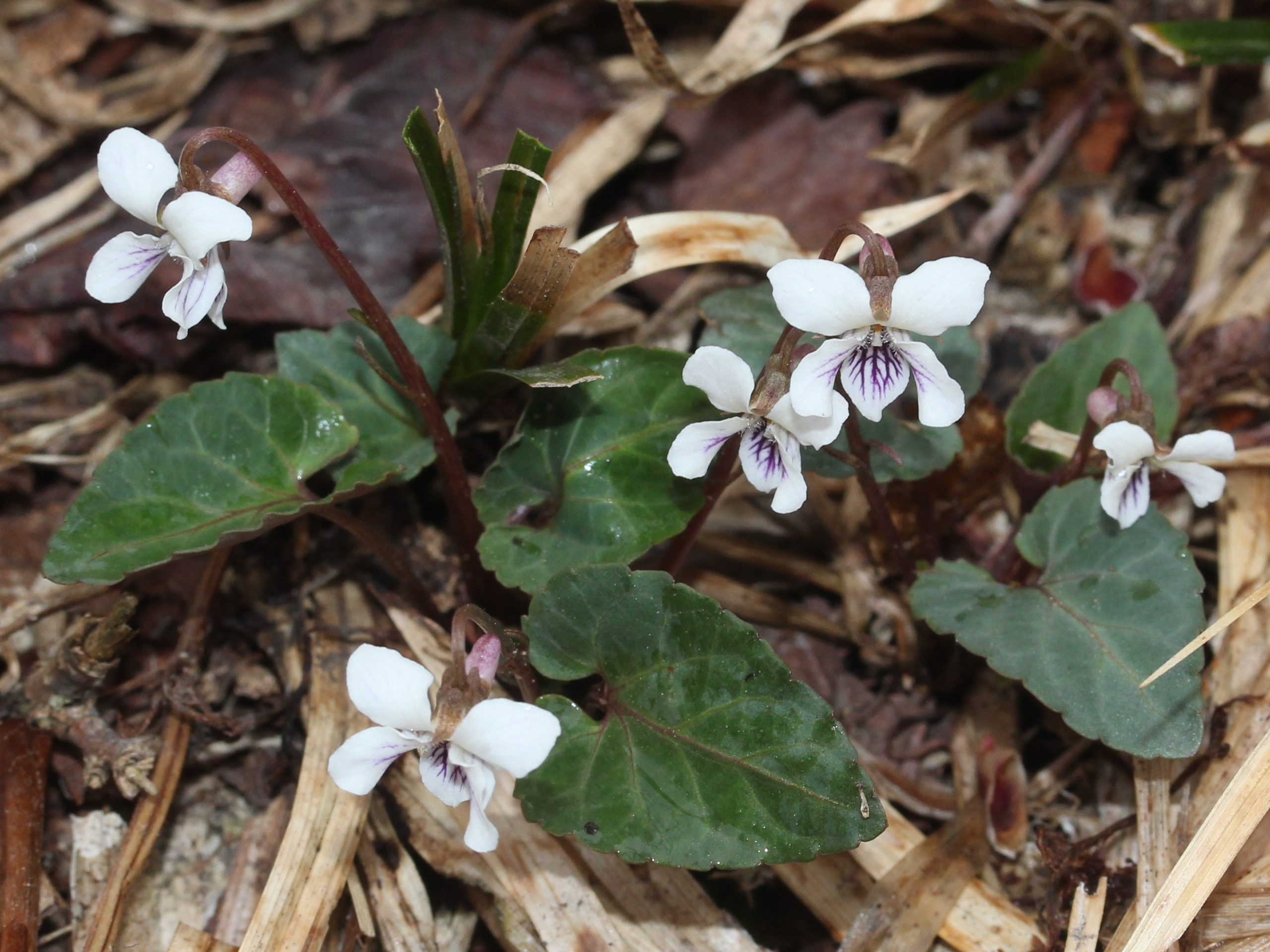 Viola sieboldii in Mount Fujiwara, Inabe, Mie prefecture, Japan.